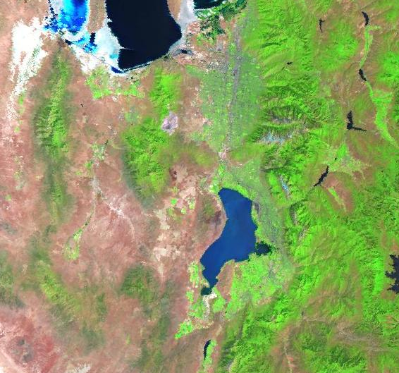 Landsat picture of Utah Lake near Provo, Utah. The southern end of the Great Salt Lake is visible at the top left corner of the image. The islands, mountain ranges, & valleys: (west to east) 1-lake: Lakeside Mountains, Stansbury Island, (south Antelope Island) 2-First land series: Skull Valley, Stansbury Mountains, Tooele Valley, Oquirrh Mountains 3-Second: Onaqui Mountains, Rush Valley, Cedar Valley, Lake Mountains, Utah Lake, Utah Valley 4-Third: Sheeprock Mountains, East Tintic Mountains, Goshen Valley, Utah Valley